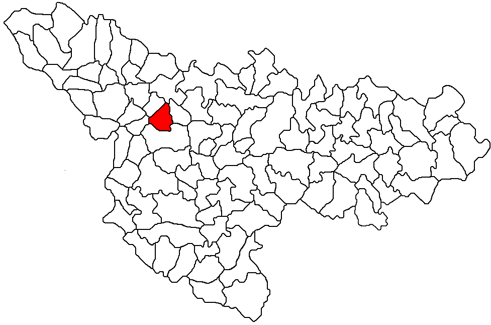 Becicherecu Mic jud Timis.png, a commune of the Timis judet, Banat, Romania